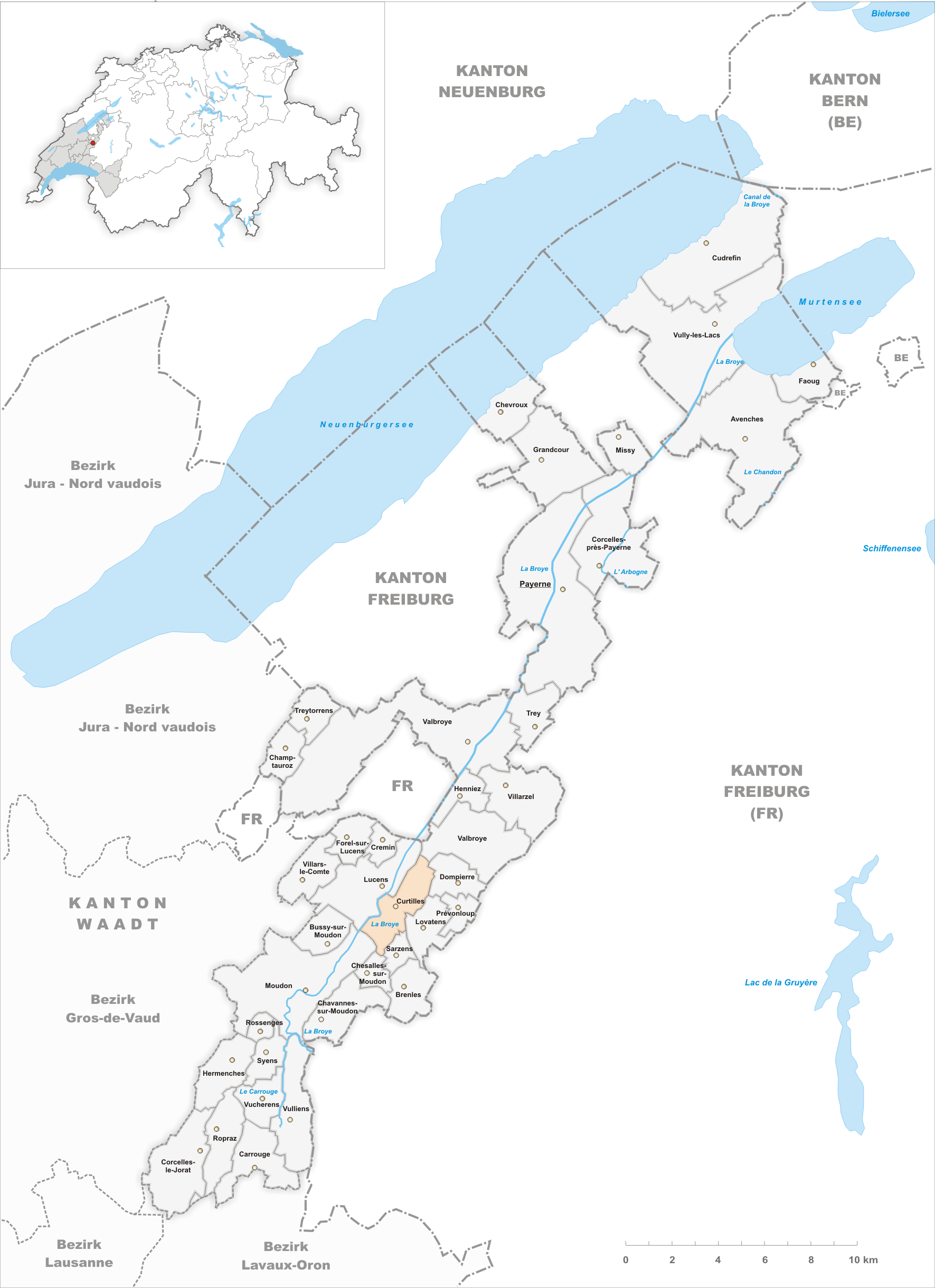 Municipality Curtilles